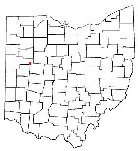 Locator map of the unincorporated community of Santa Fe in Auglaize and Logan counties in the U.S. state of Ohio.